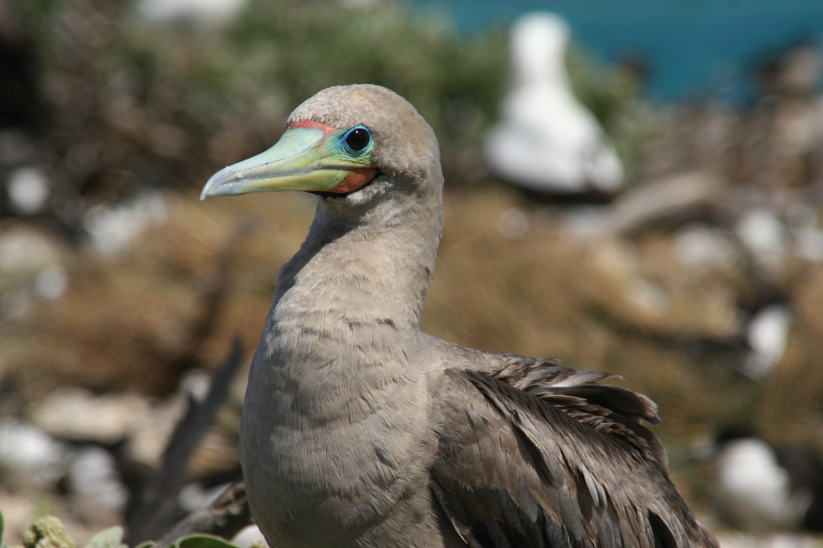 Red-footed Booby Sula sula (Brown Morph) on Tern Island, French Frigate Shoals, Hawaii